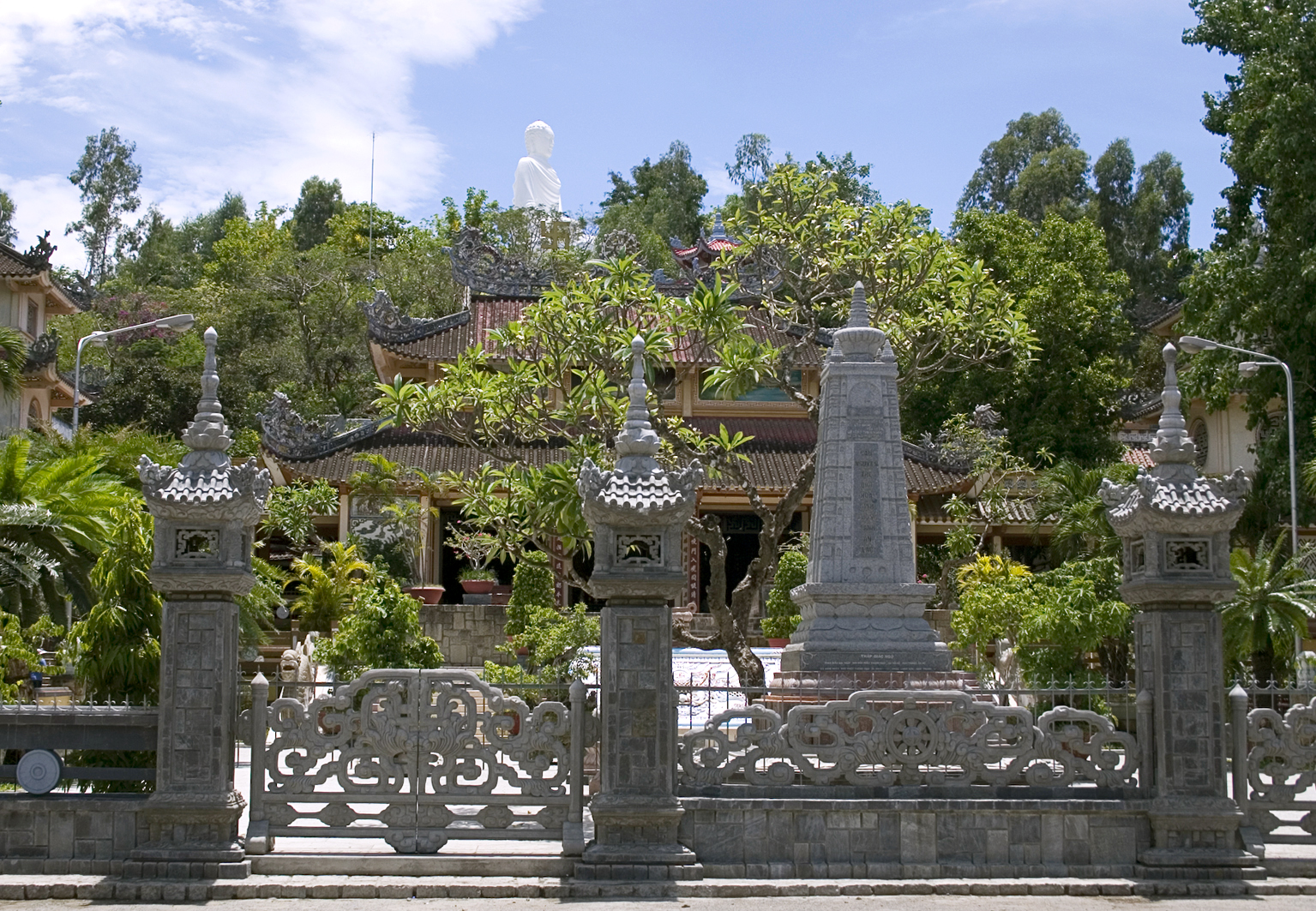 Long Son Pagoda at Nha Trang, Viet Nam